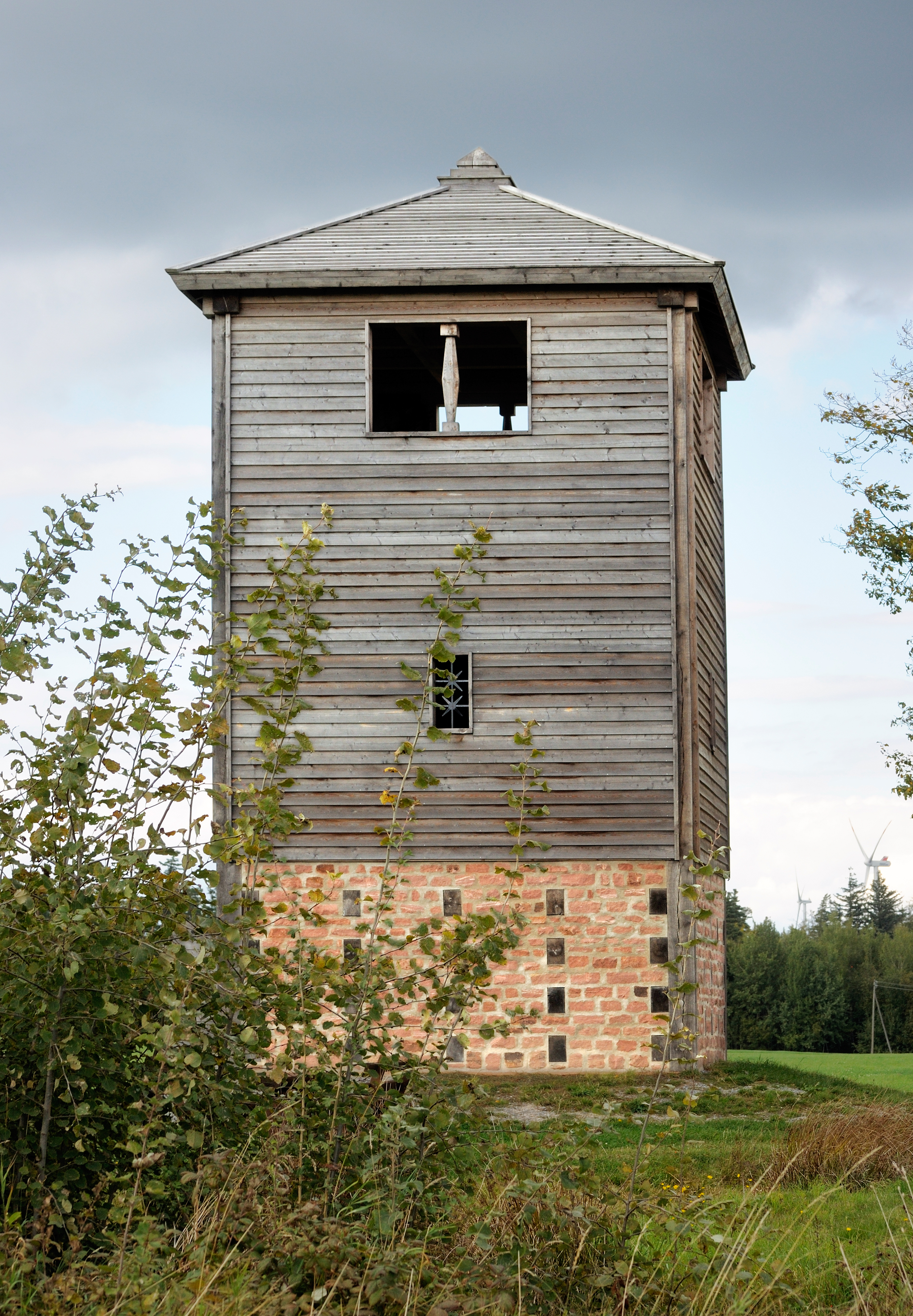 Limes tower Wp 10/15 „Im oberen Haspel“ next to Castellum Hainhaus.